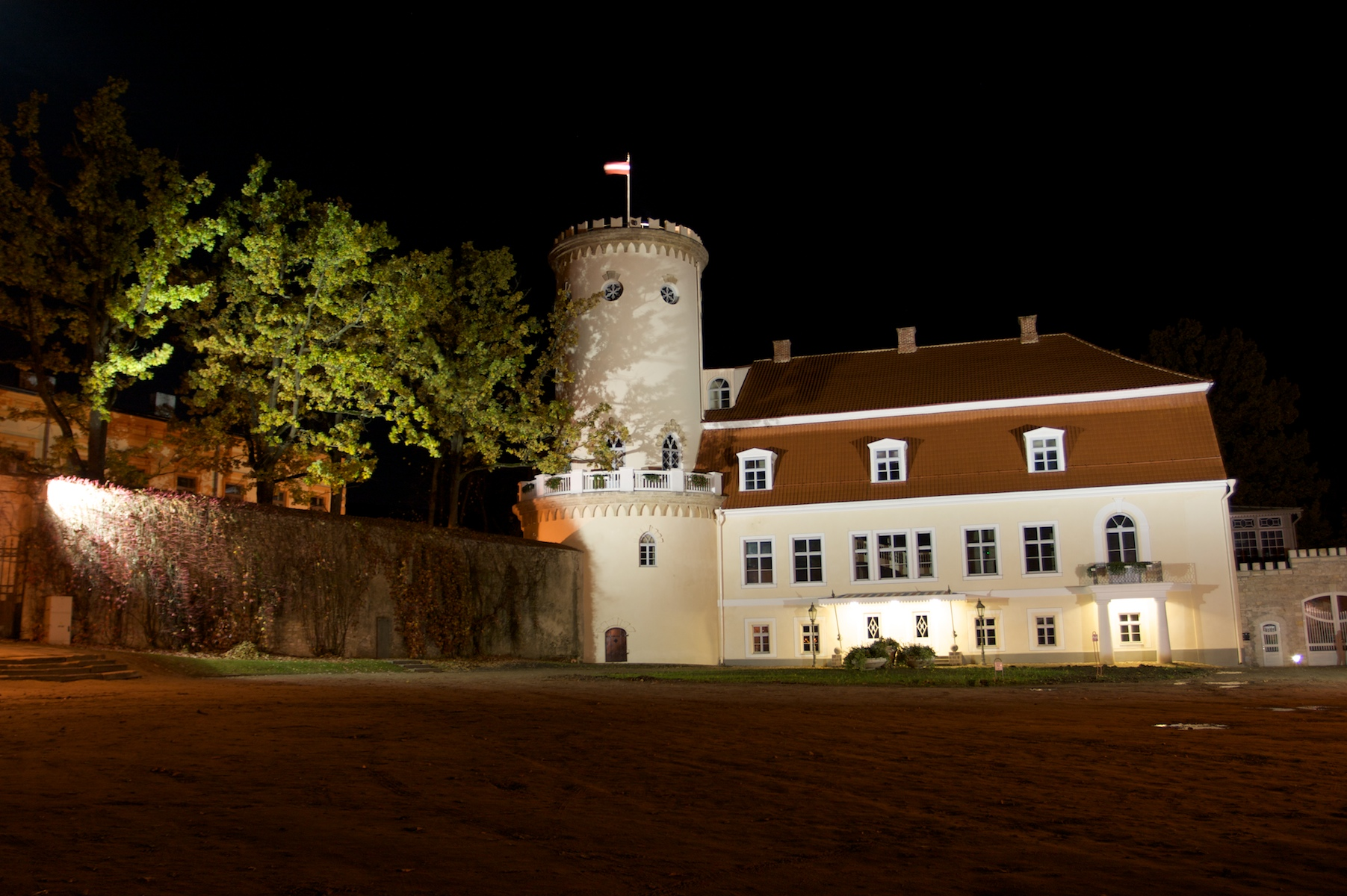 Cēsis in Latvia.